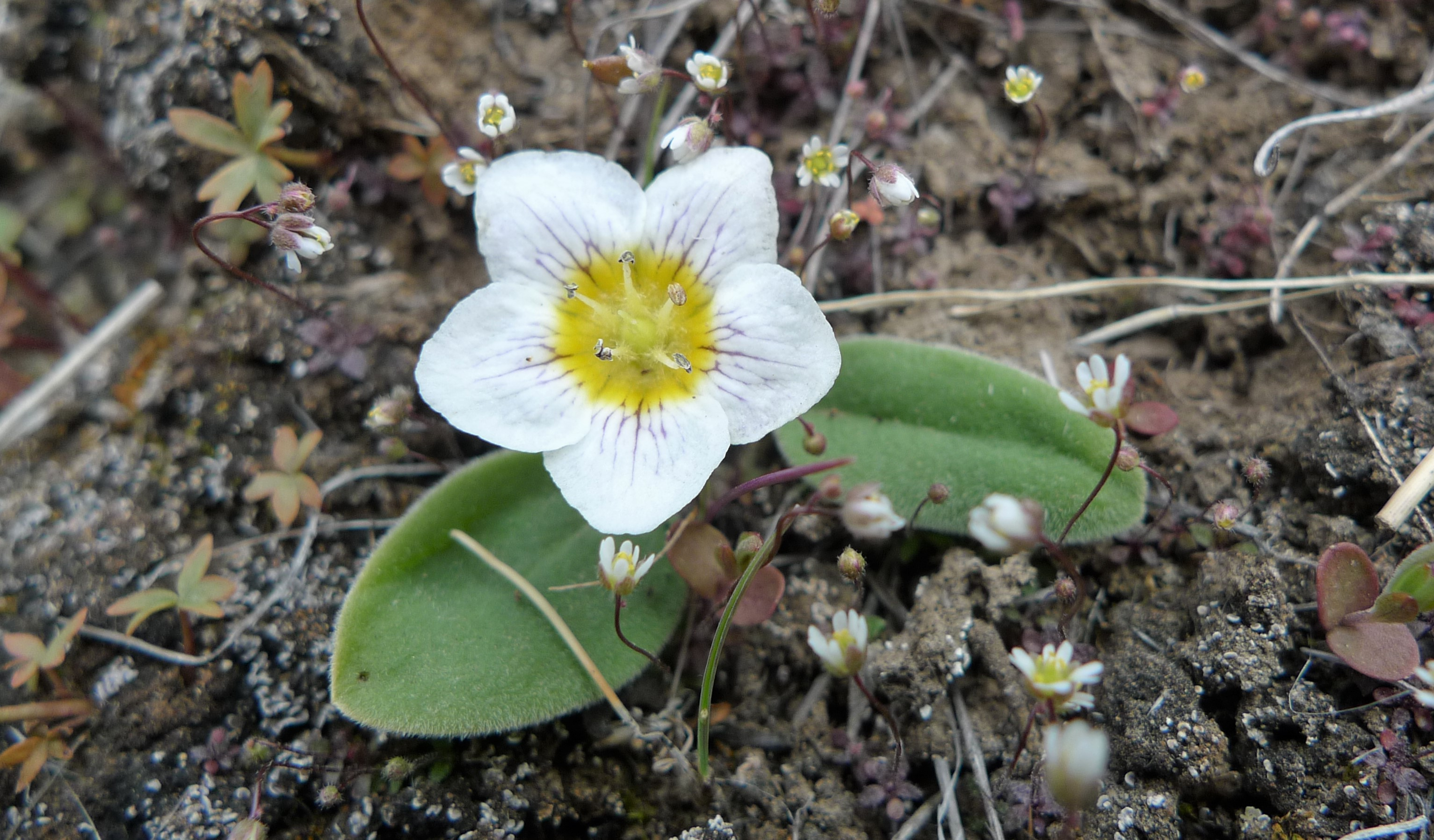 Hesperochiron pumilus on Badger Mountain, Douglas County Washington